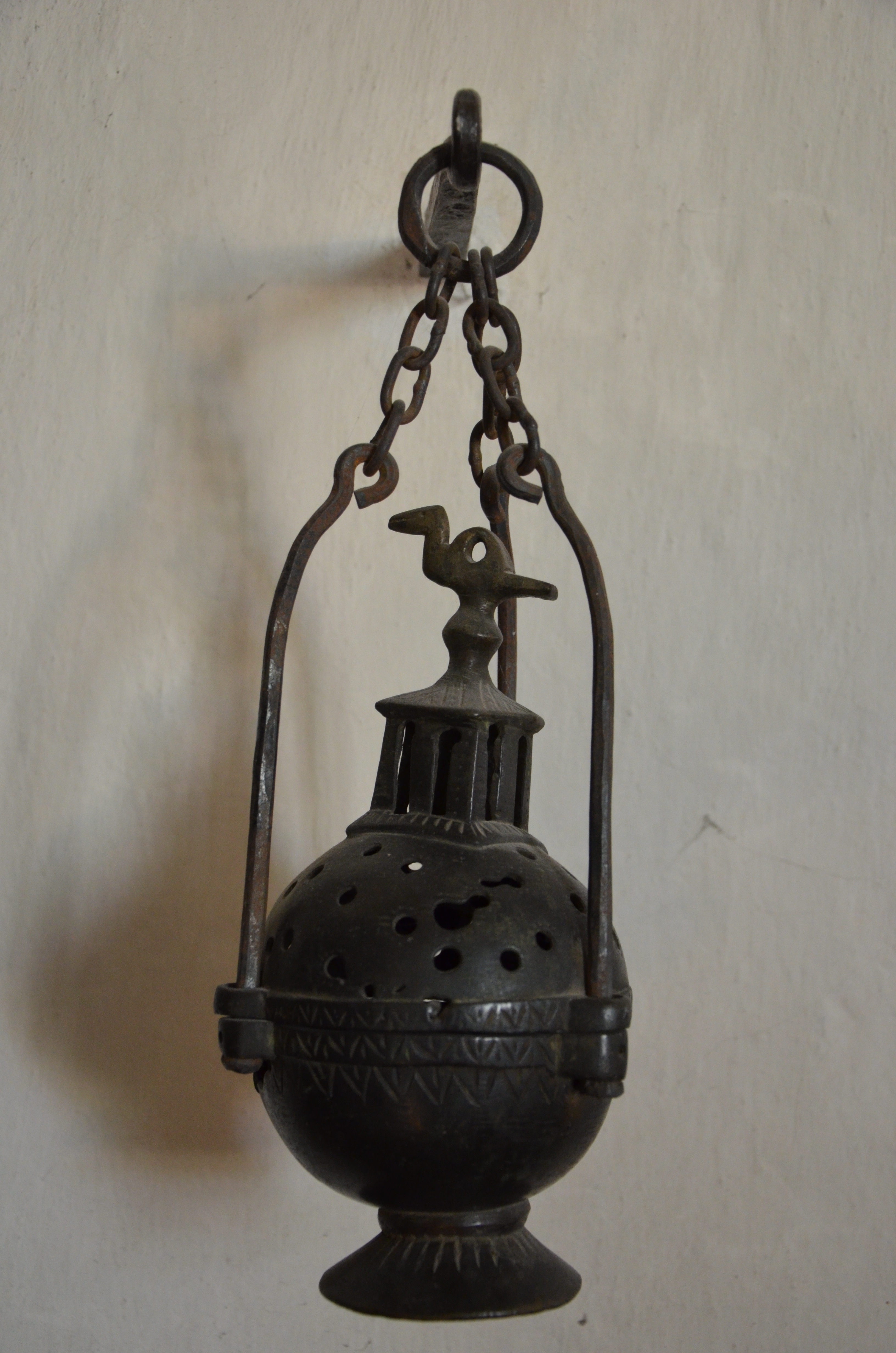 Rökelsekar i Almunge kyrka